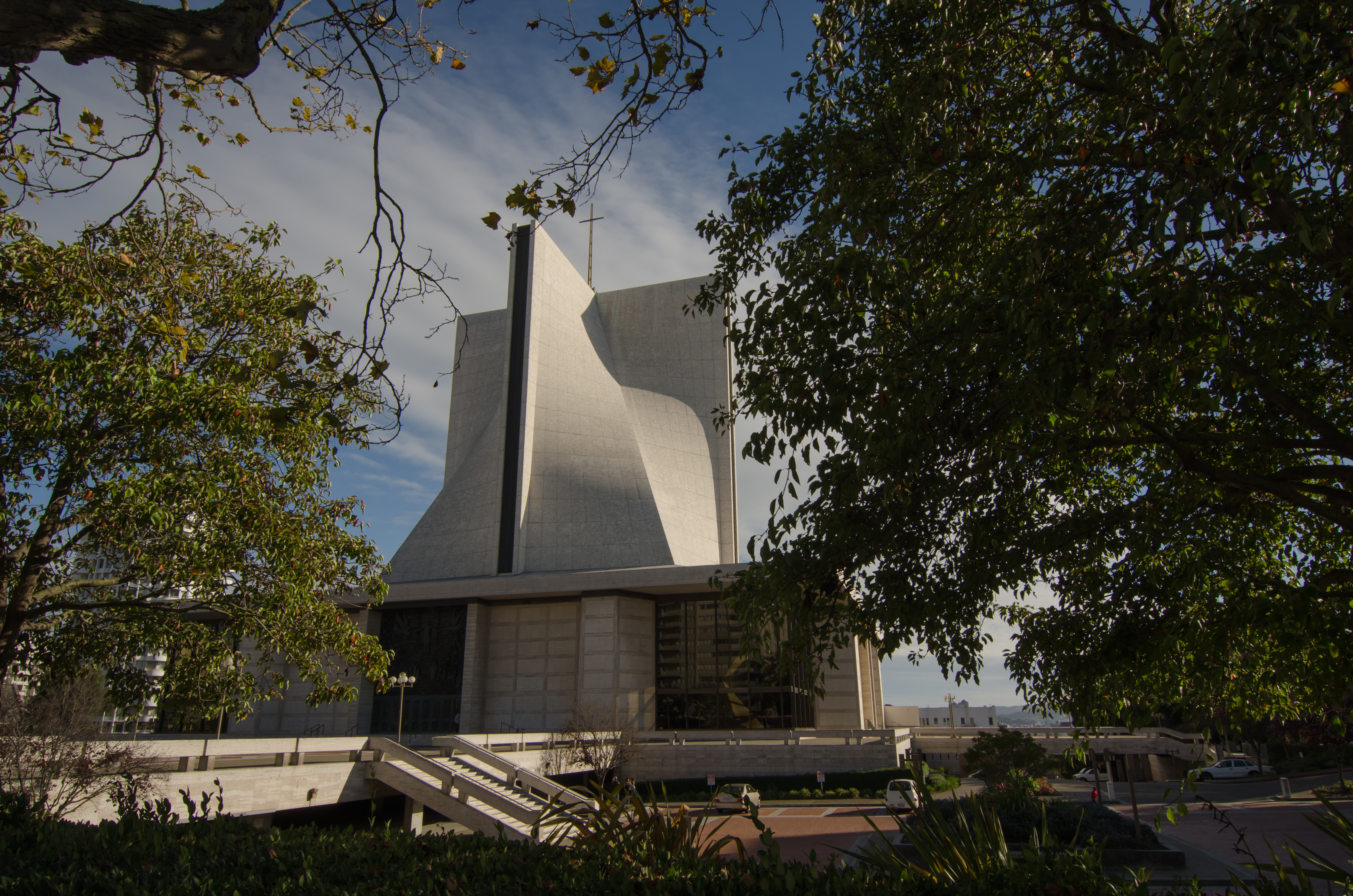 Saint Mary’s Cathedral Designed by Italian Architects Pier Luigi Nervi (Sondrio, Jun. 21st 1891 – Rome, Jan. 9th 1979) and Pietro Belluschi (Aug. 18, 1899 — Feb. 14, 1994) San Francisco, CA